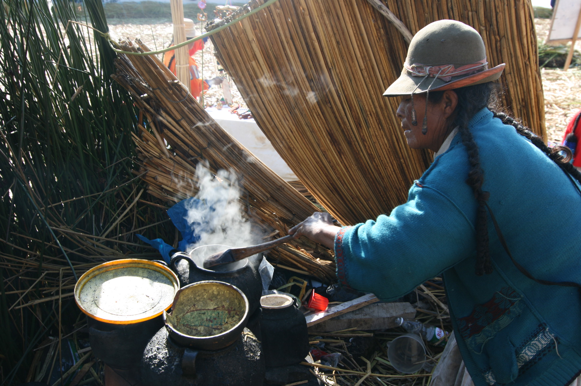 Some of the women cooking in a very typical way in Los Uros